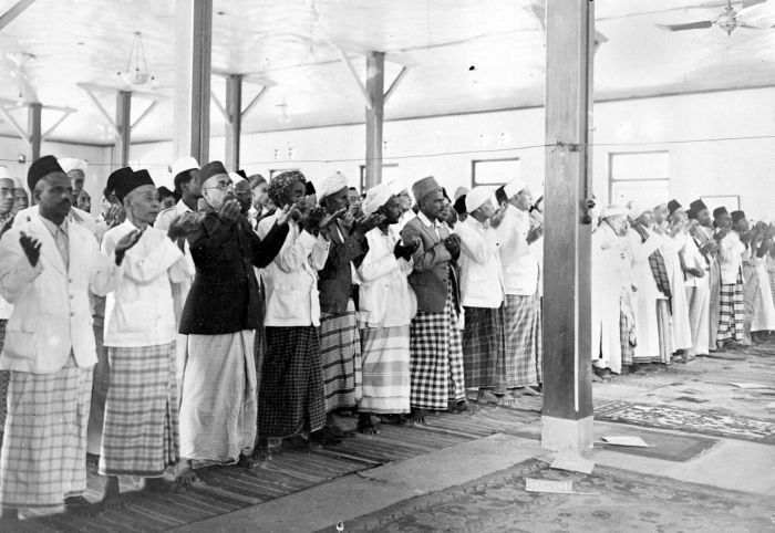 Special service in the Kwitang mosque of Jakarta after the death Mohammed Ali Jinnah, the first governor of Pakistan